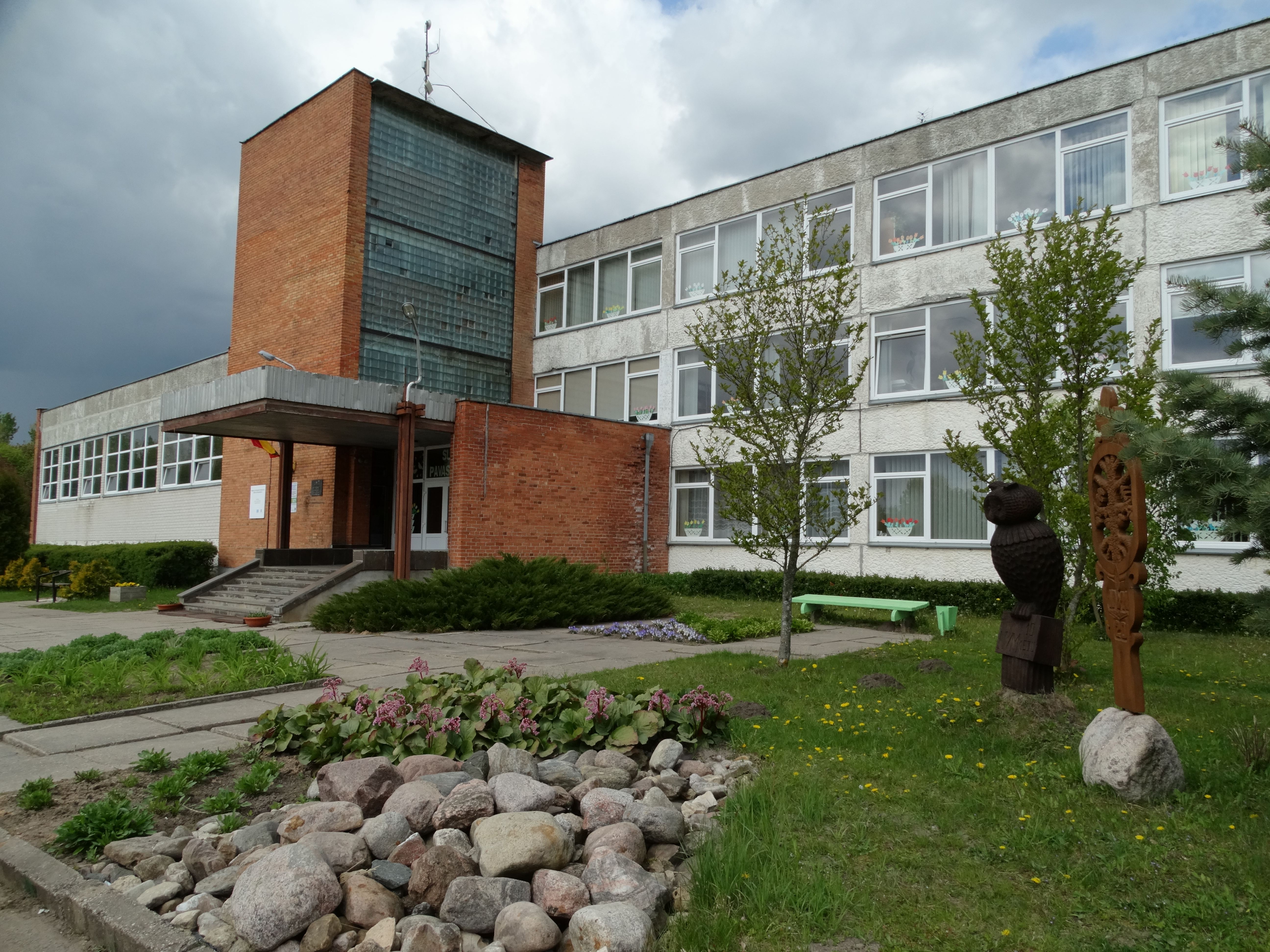 School, Neveronys, Lithuania